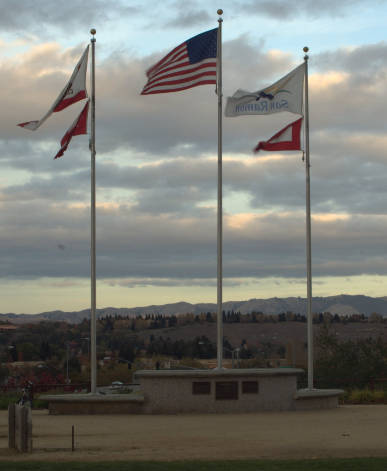 The Memorial Park in San Ramon, CA